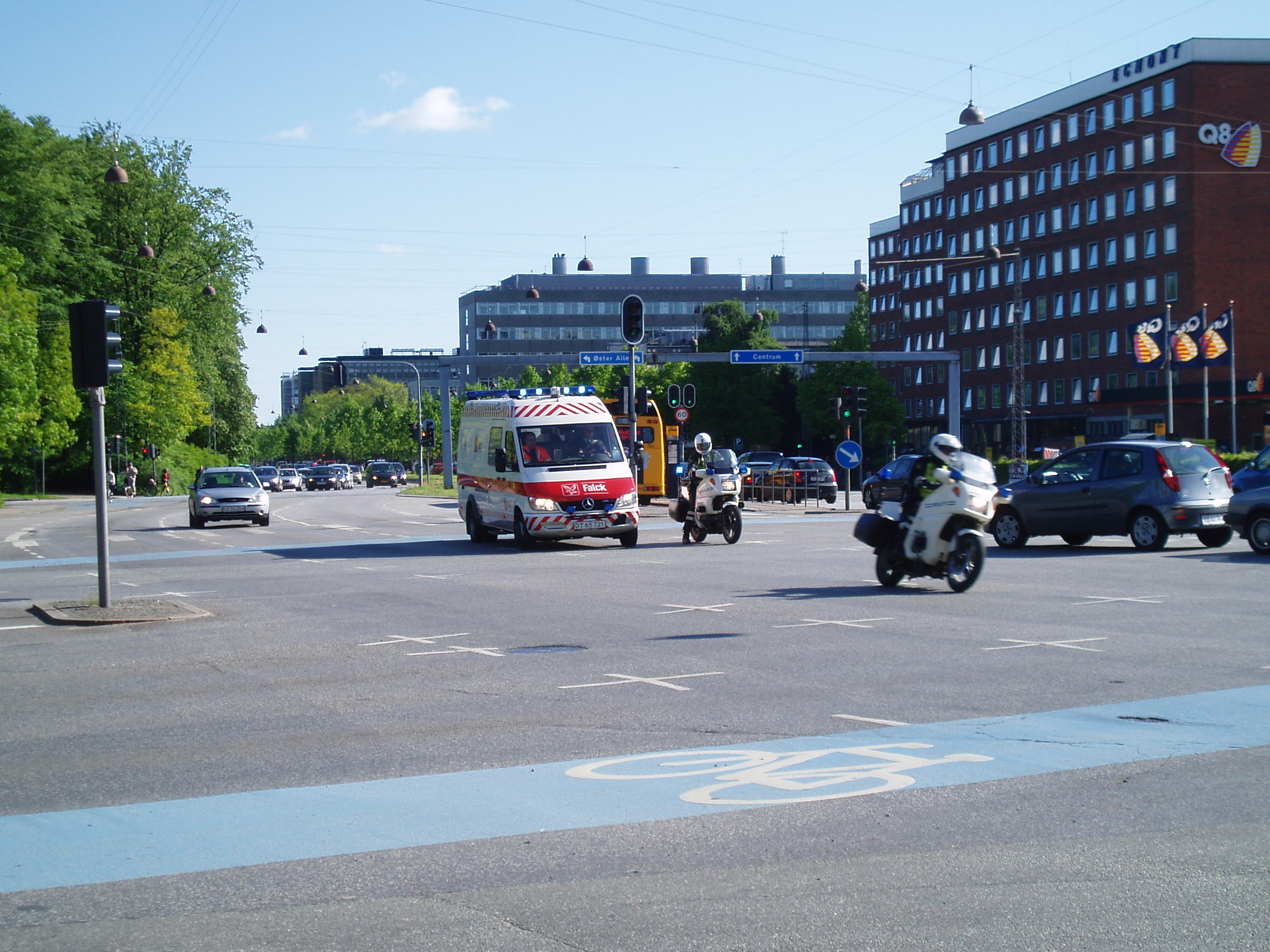 Falck Mercedes-Benz Sprinter 416 ambulance under police escort from Copenhagen to Gentofte by Copenhagen Police motorcycles. The ambulance is a so-called "bed-ambulance", which is specially constructed for transporting hospital beds. Patient was received from a Royal Danish Air Force rescue helicopter in Fælledparken. The picture was taken at Vibenshus Runddel, just outside Fælledparken.